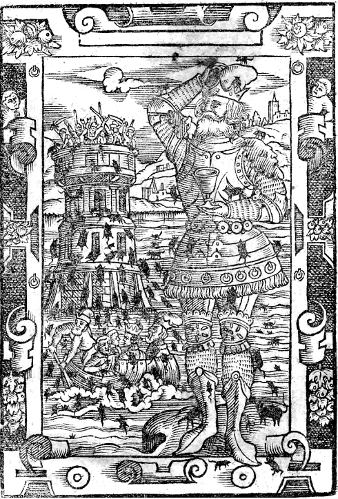 Popelus Secundus